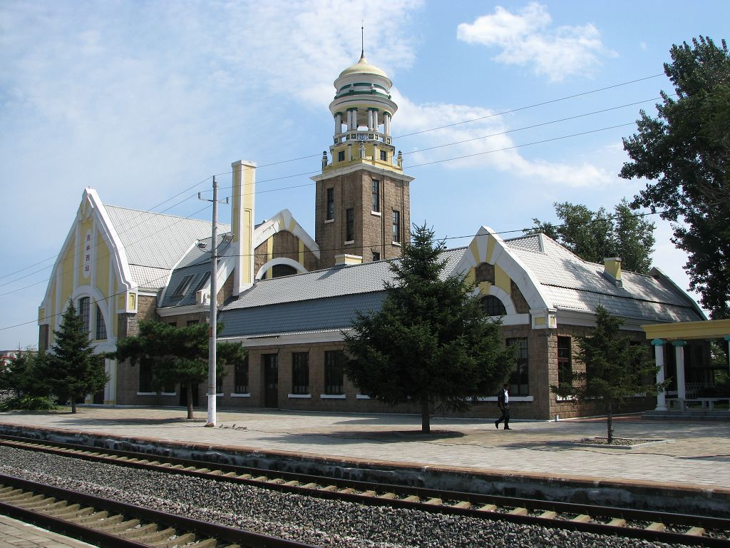 Jilin West Railway Station